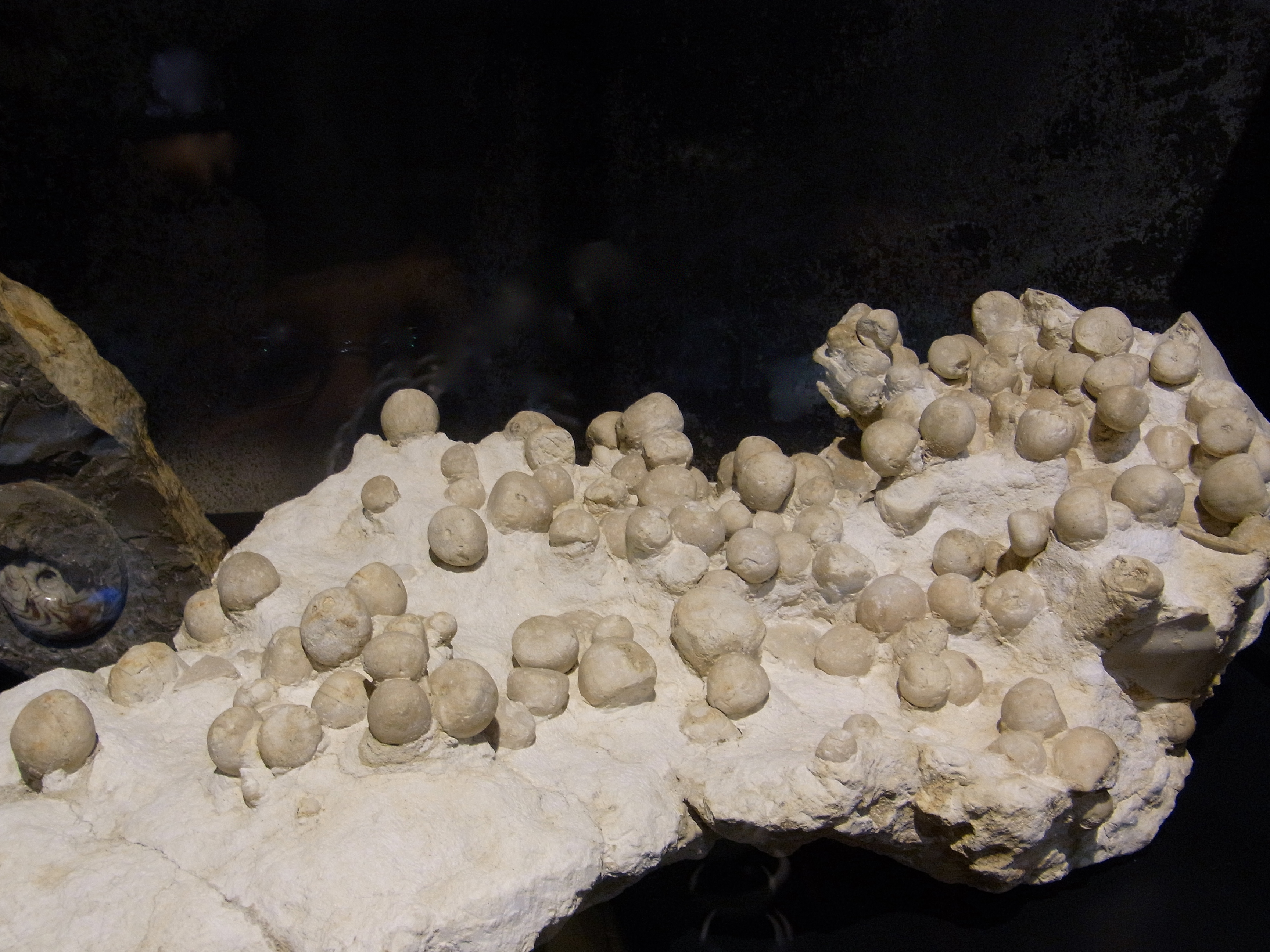 Sea urchin, Conulus subroundatus - Locality and Age: North Rhine-Westphalia, Ahaus-Wüllen, Cretaceous, 90 million years - Ruhr Museum at Zollverein Coal Mine Industrial Complex